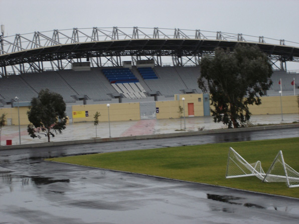 Pampeloponisiako Stadium in Greece.